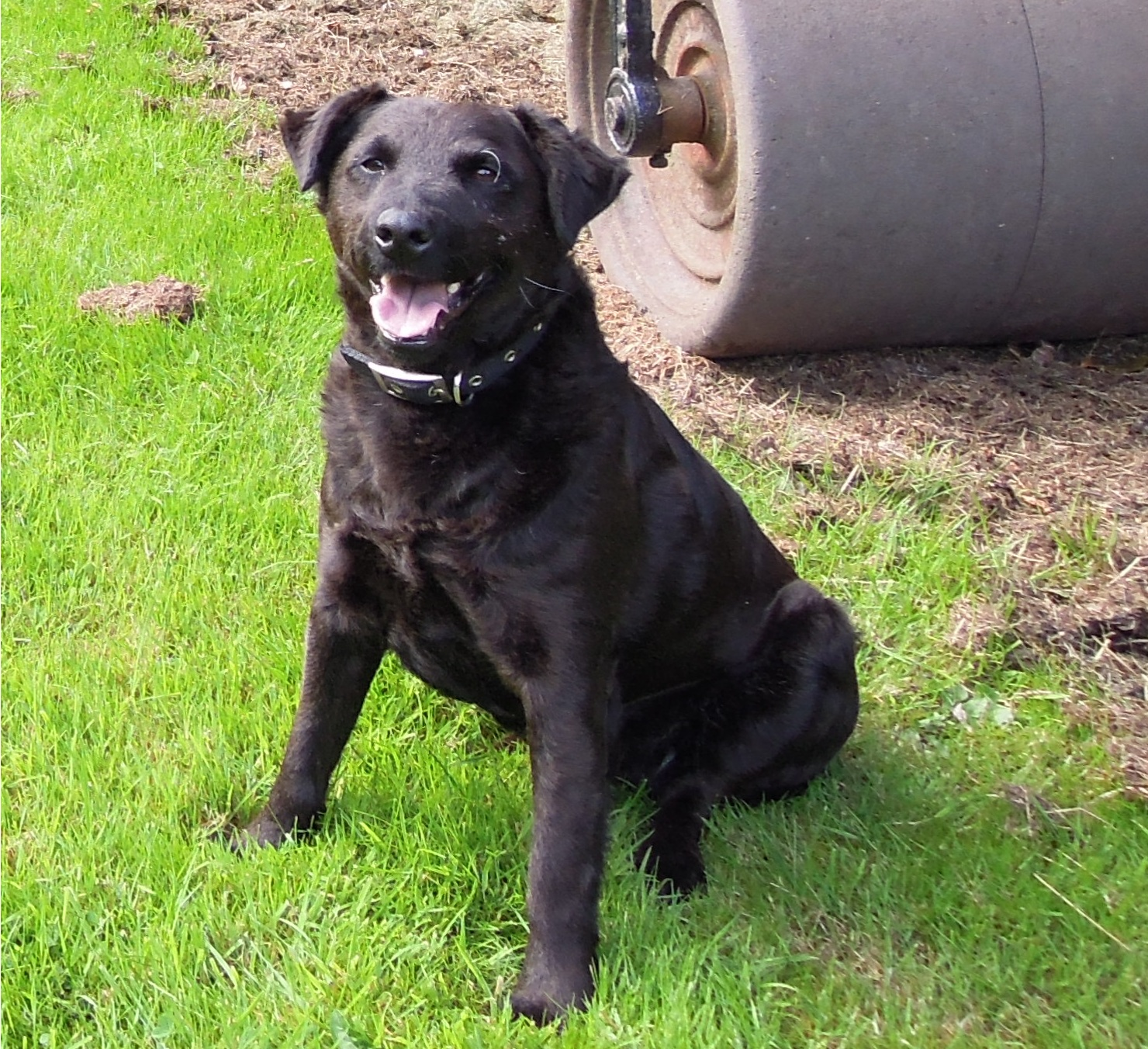 5 year old male Patterdale Terrier, with brown, "broken" coat